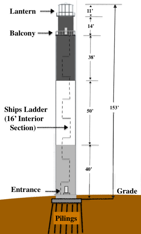 Illustration of the Lighthouse showing dimensions/key features